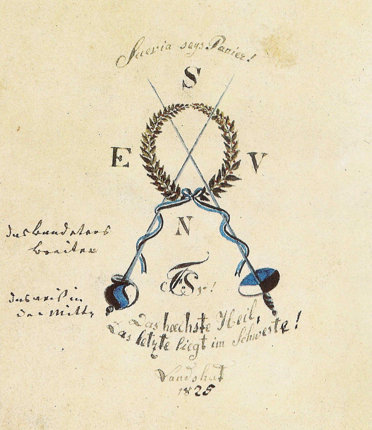 Artist's draft of Bundeszeichen of Corps Suevia München 1825 (at that time located in Landshut), Entwurfszeichnung des Bundeszeichens des Corps Suevia München (damals noch in Landshut), angefertigt von einem Jenaer Porzellanmaler zur Prüfung durch die potenziellen Kunden in Landshut Beischrift: "Suevia seys Panier! Das hoechste Heil, Das letzte liegt im Schwerte! Landshut 1825" Die umgeschriebenen Großbuchstaben SENV stellen den Wappenspruch des Corps dar: "sit ensis noster vindex" Korrekturanmerkungen am Rande: "das Band etwas breiter" "das weiß in der Mitte"